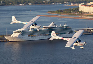 Couple of Remos GX planes over the seaport of Saint-Petersburg, Russia. Bigger size you may see here